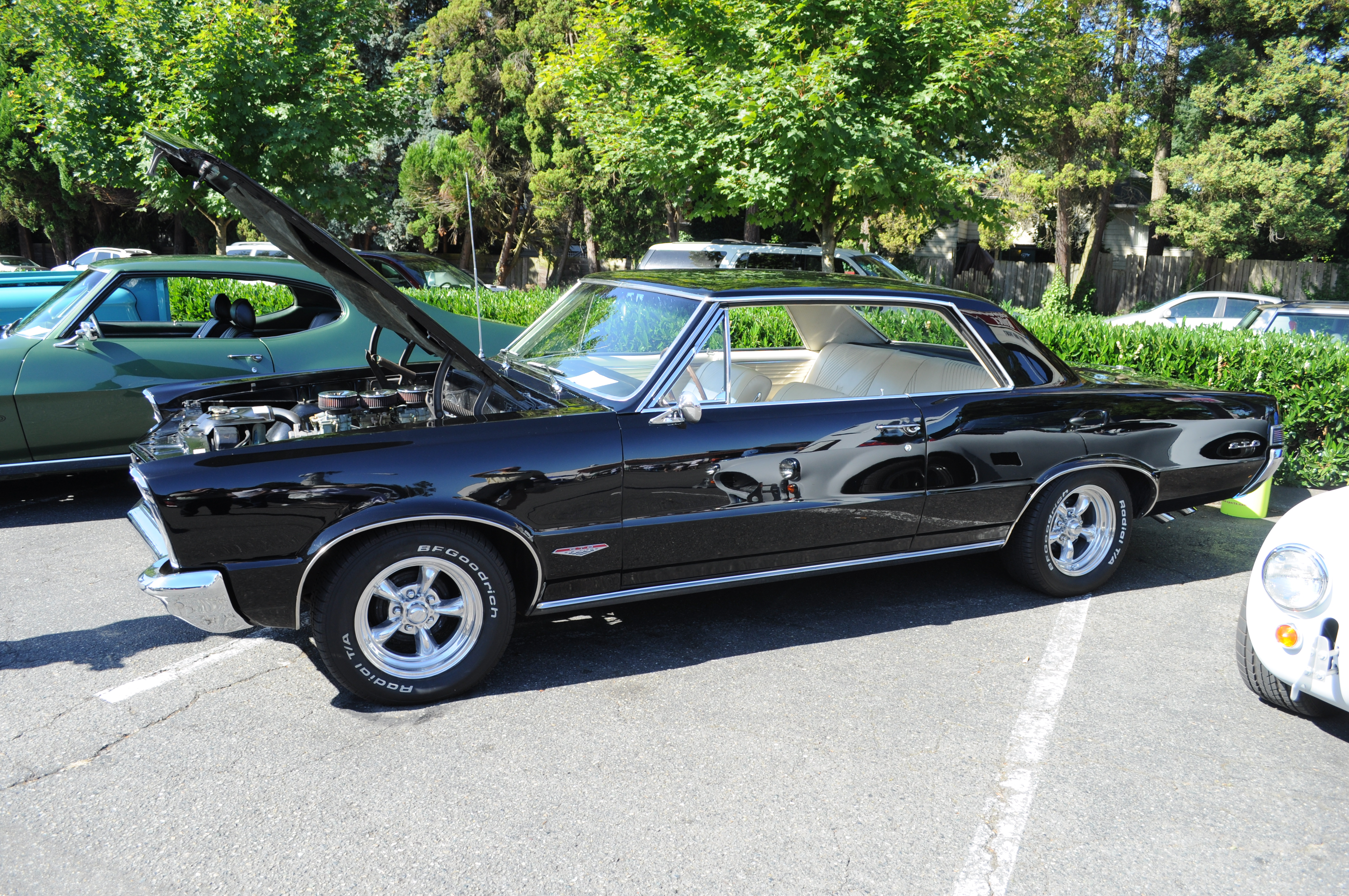 1965 Pontiac GTO, 4th Annual Chad Shanks Memorial Car Show, Wedgwood Broiler, Wedgwood, Seattle, Washington, USA